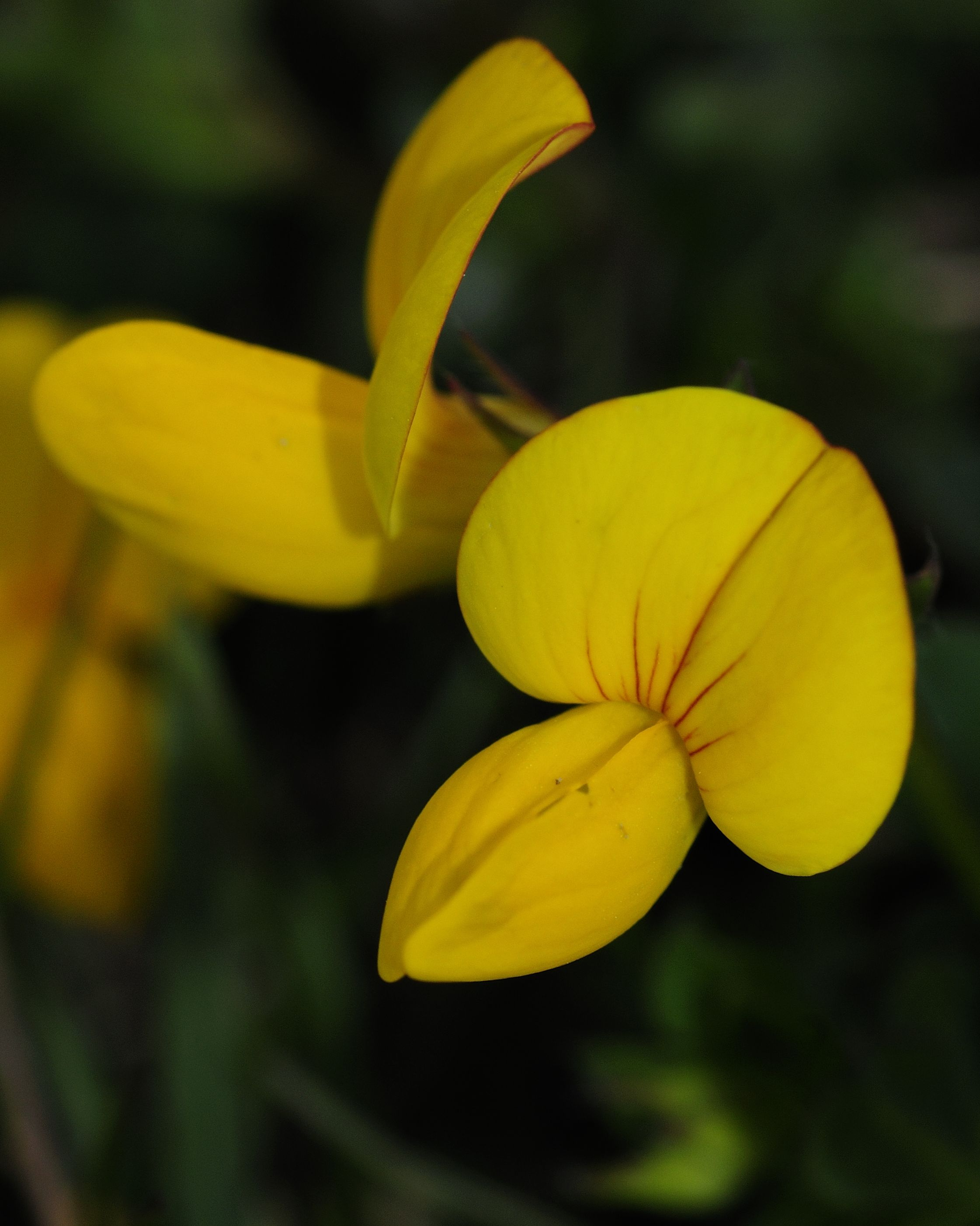 Please report references to .